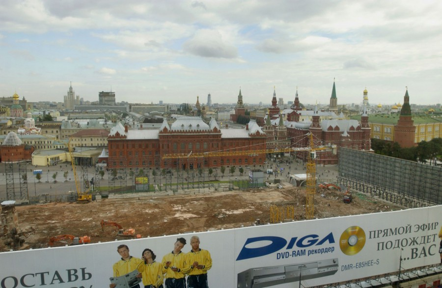 Old Hotel Moskva demolished